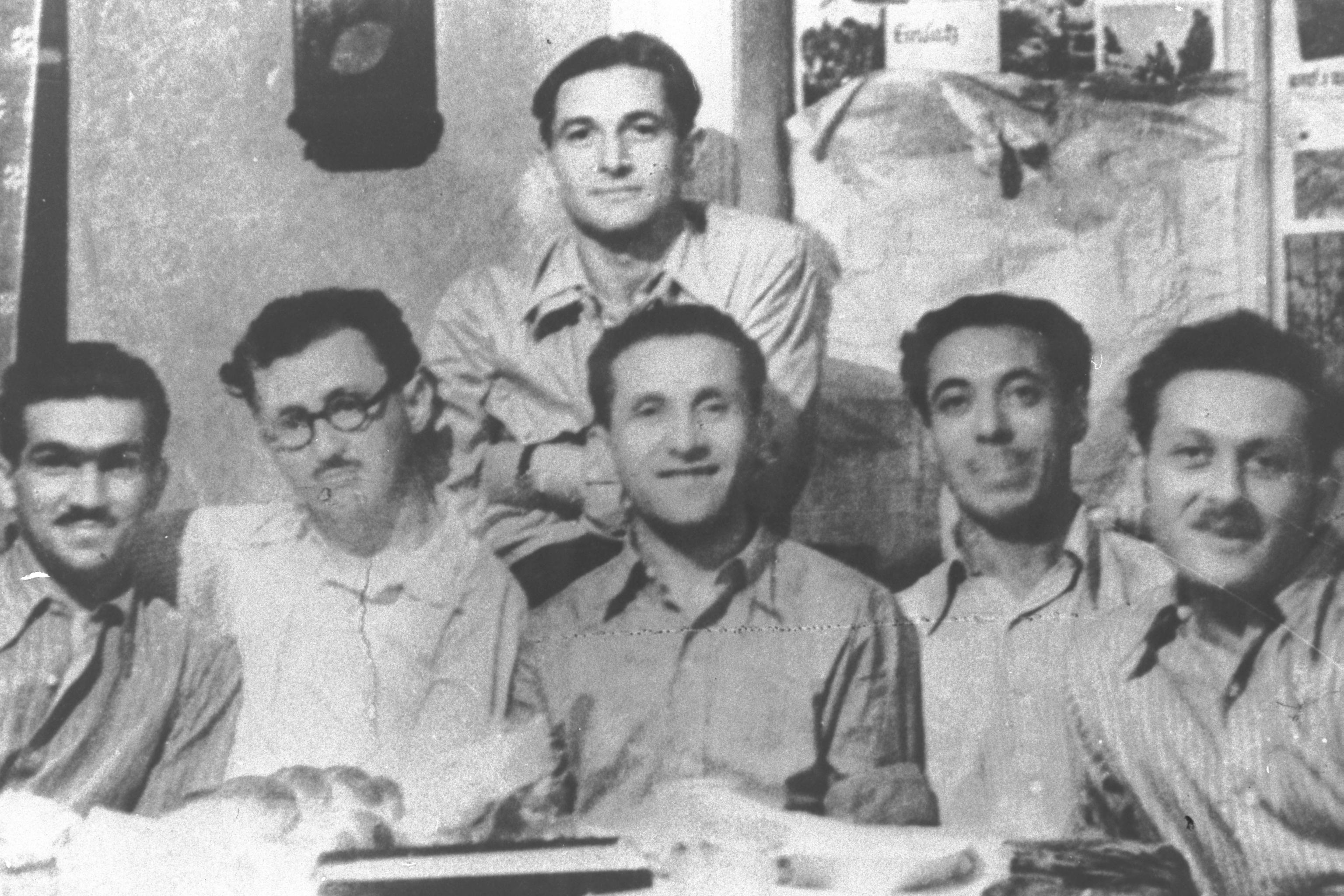 A GROUP JEWISH PARACHUTISTS PHOTOGRAPHED IN BUCHAREST,R.TO L. GUKOVSKY ACHISAR, BAROUCH KAMIN, TRACHTENBERG SHAIKE, BEN-EPHRAIM, ARIE LIPSKY & DOV HARARI. קבוצת צנחנים יהודים אשר צולמו בבבוקרשט לאחר שיחרורם. יושבים מימין לשמאל, גוקובסקי (אחישר), ברוך קמין, טרכטנברג שייקה, בן אפרים, אריה ליפסקי. עומד מאחור, דוב הררי.